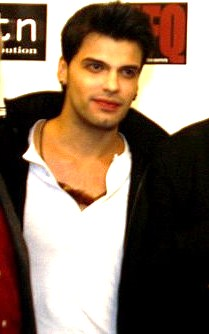 Actor Carlucci Weyant at the 7th annual Manhattan film festival.